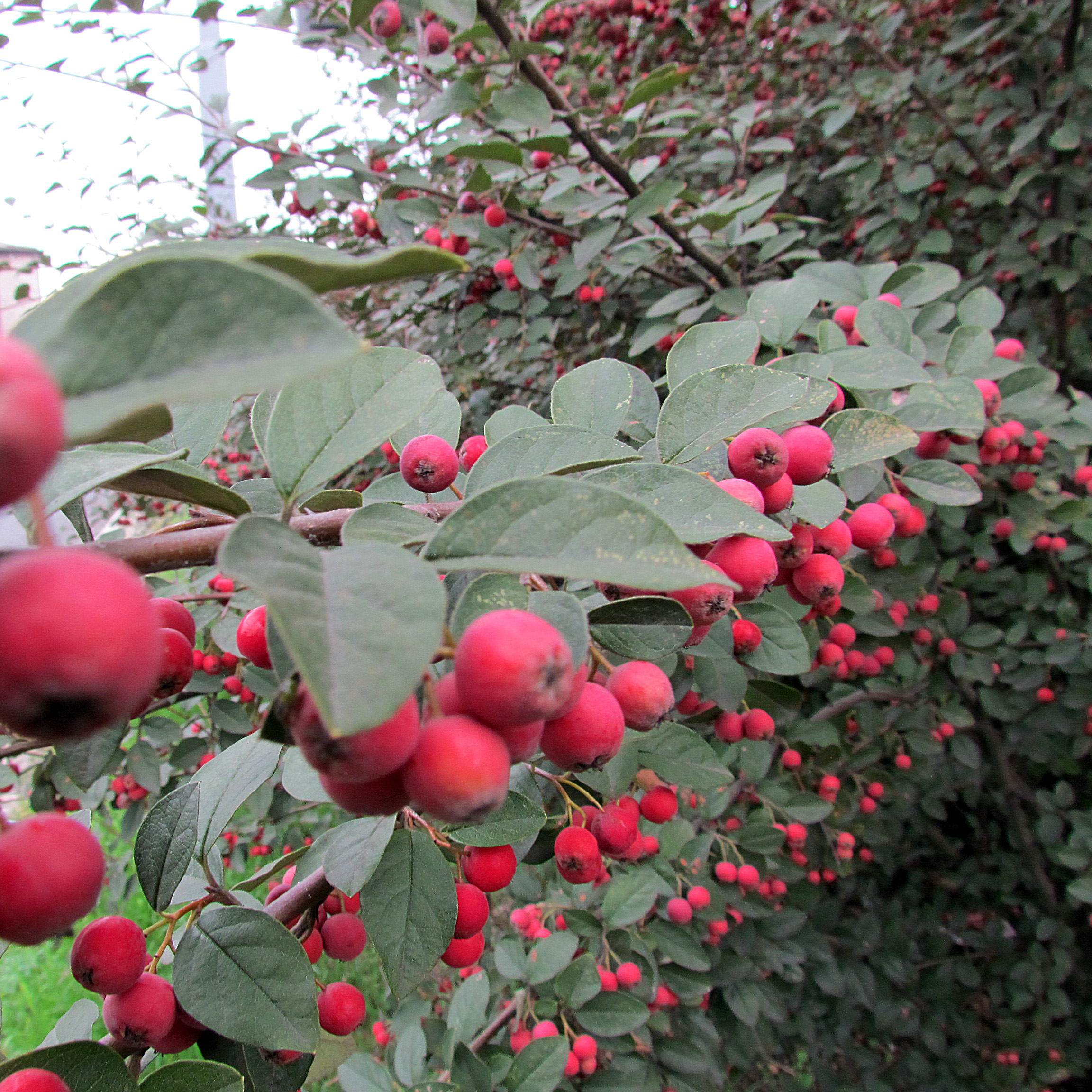 Cotoneaster multiflorus fruits on the shrub in Mostar crossroad, Belgrade